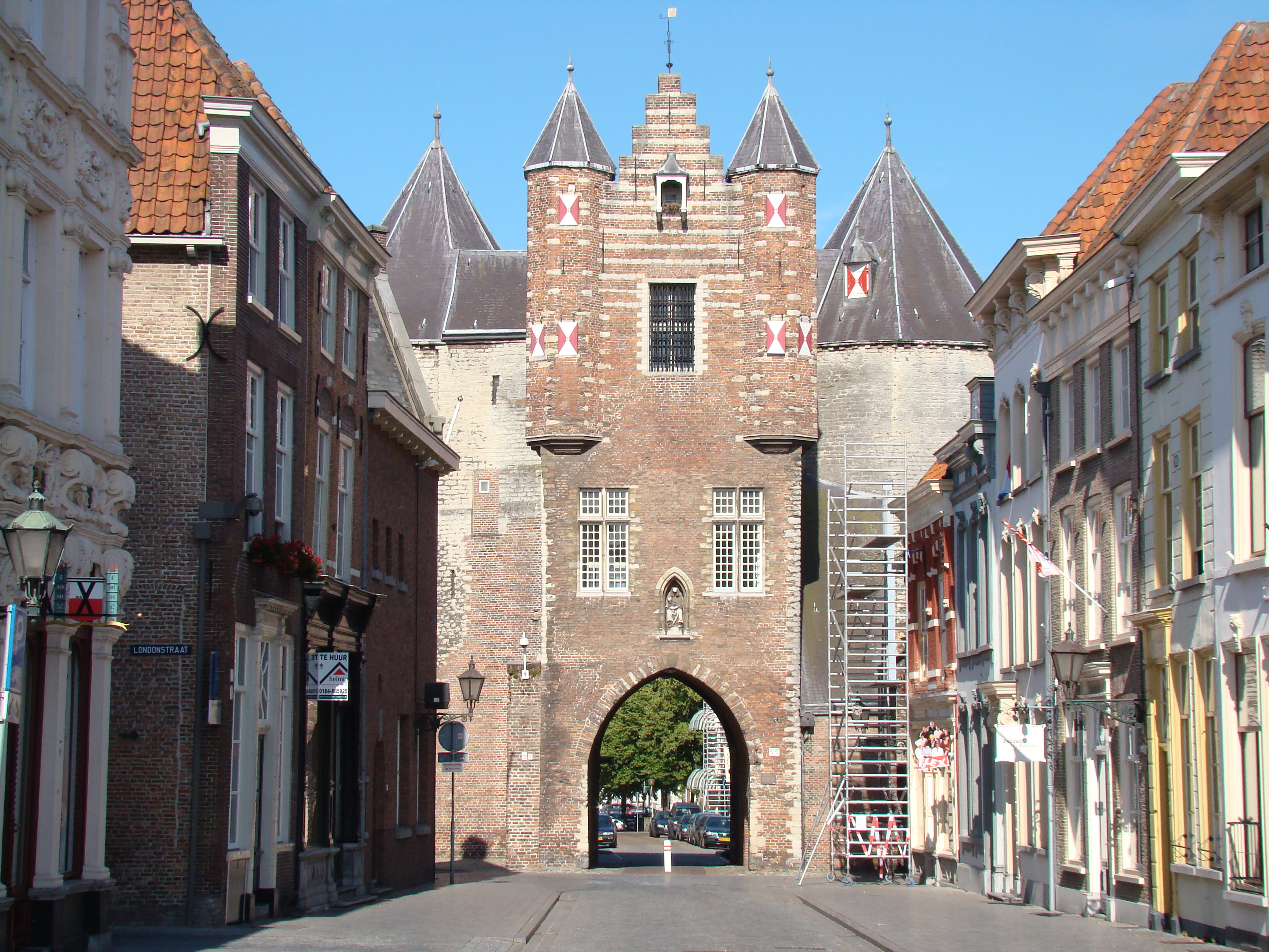 Impressions of Bergen op Zoom, Netherlands